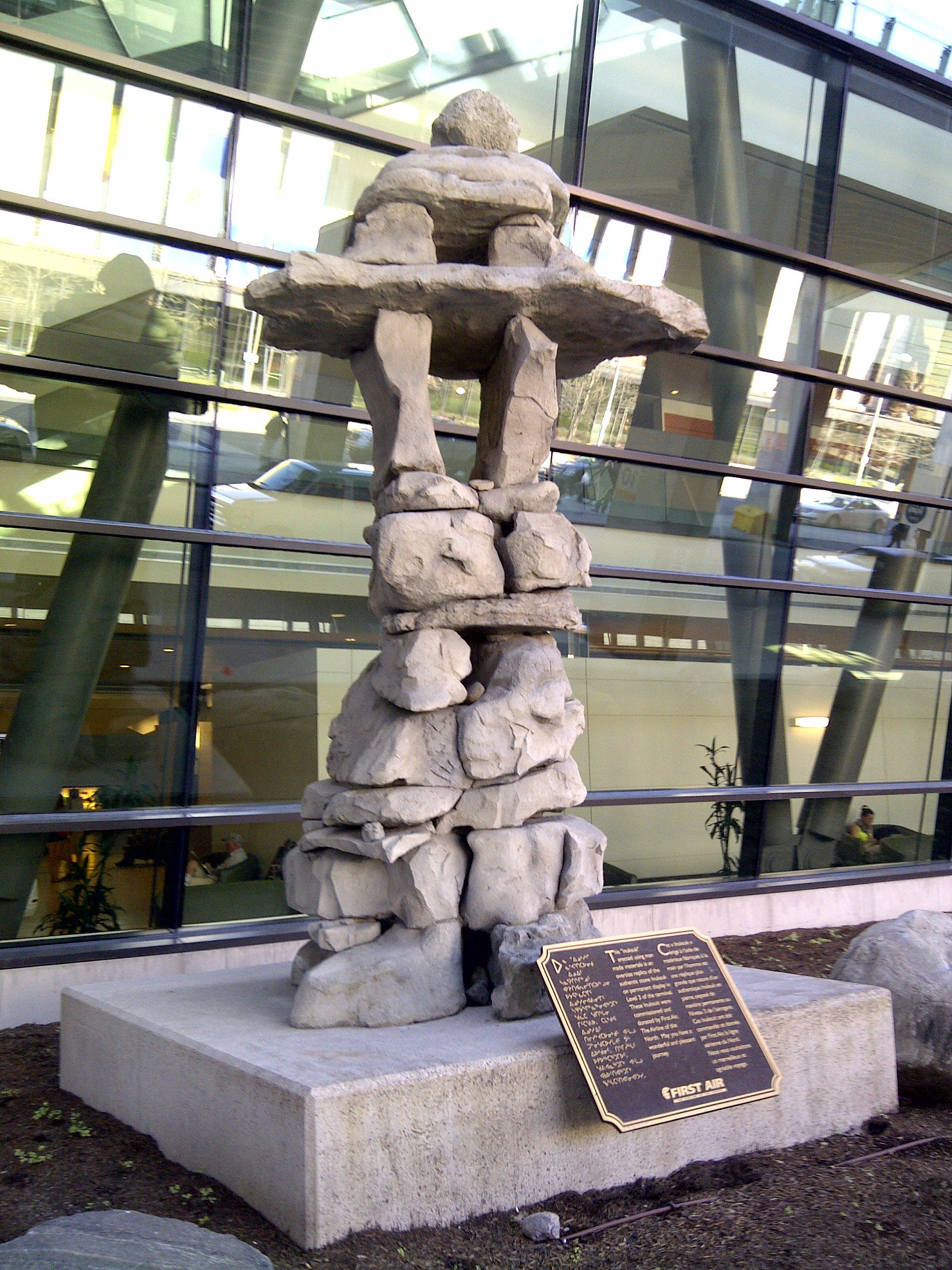 Inukshuk at Macdonald-Cartier International Airport in Ottawa, Ontario, Canada.